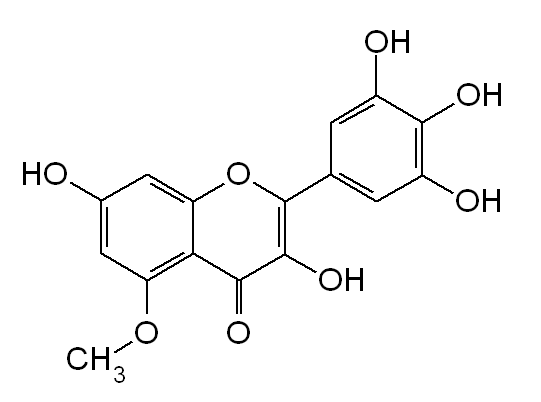 Chemical structure of 5-O-methylmyricetin